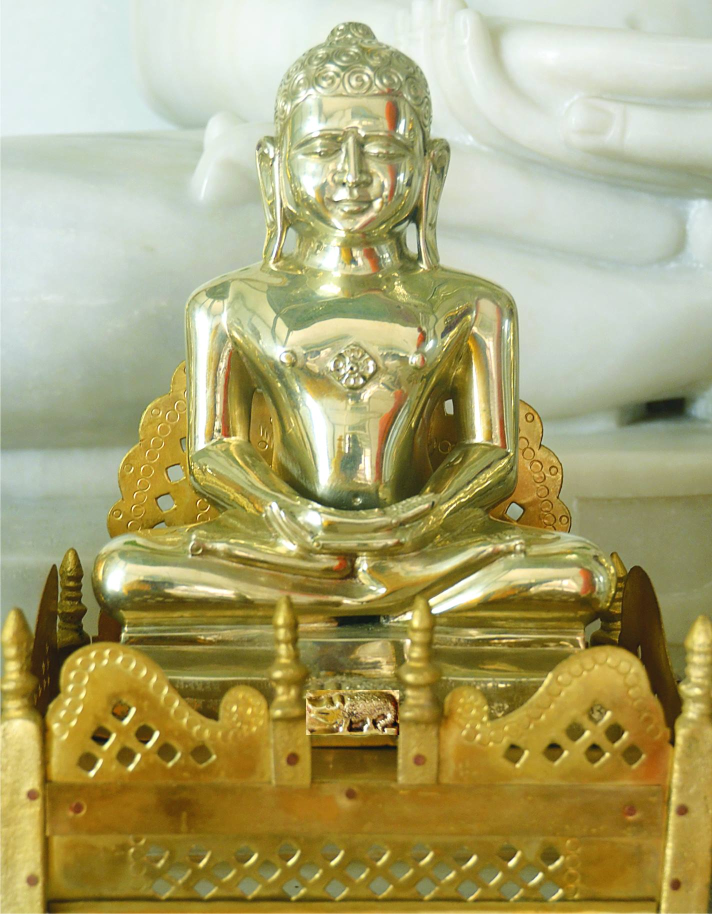 Image of Teerthankar Pushpadant (@ Hastinapur Jain Temple)